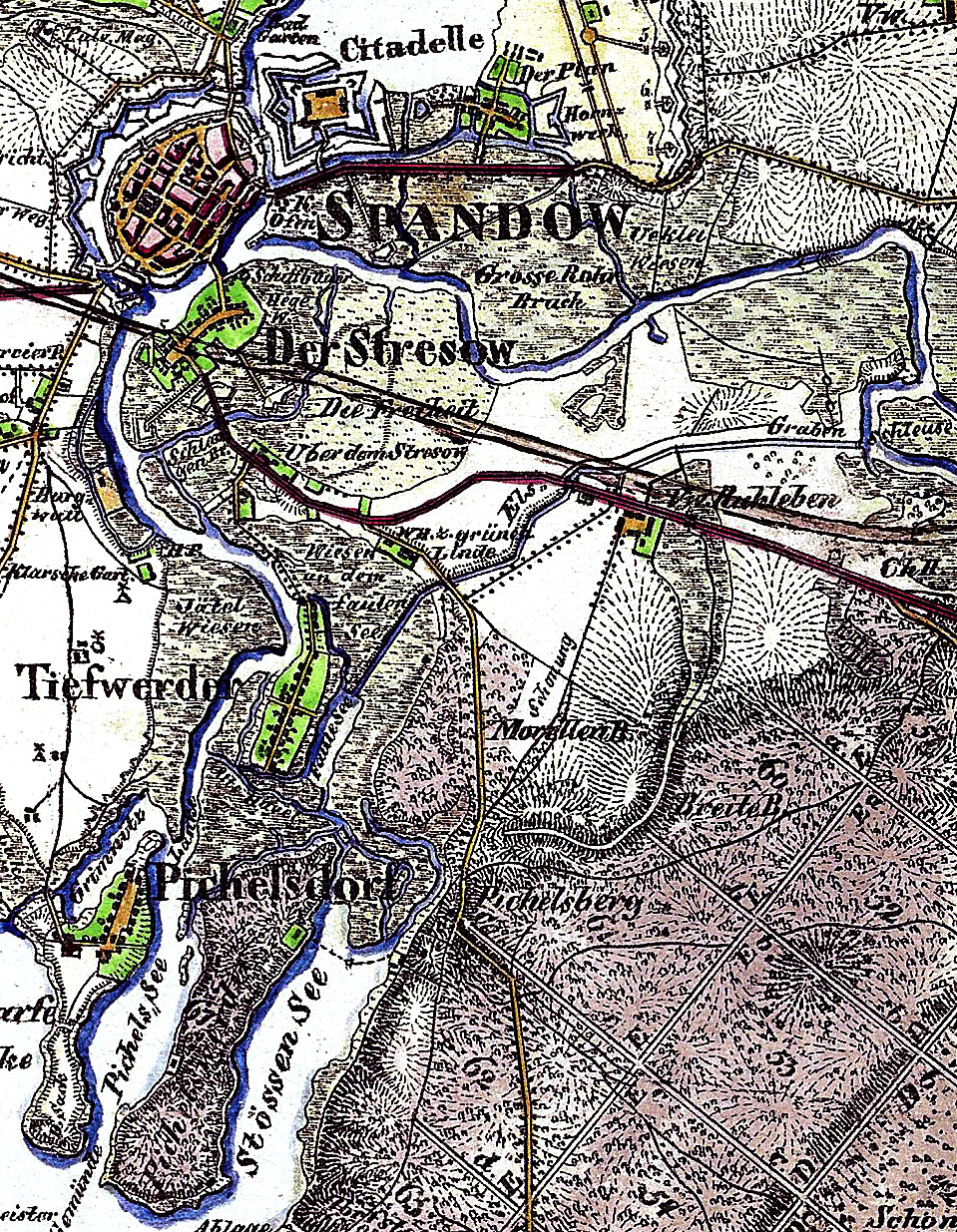 Land nearby Berlin 1842. Today part of the towns: Berlin-Spandau, Berlin-Ruhleben.